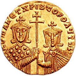 ROMANUS I, Lecapenus, with CHRISTOPHER. AV Solidus (20mm, 4.40 gm, 6h). Constantinople mint. Struck 921-931 AD. +IhS XPS REX REGNANTIUM*, Christ, nimbate, enthroned facing, raising hand in benediction and holding Gospels / ROMAN' ET XPISTOFO' AUGG b', crowned facing busts of Romanus I, with short beard and loros, and Christopher, beardless and wearing chlamys, holding patriarchal cross between them. DOC III 7; SB 1745. Choice EF, sharp strike with traces of lustre.